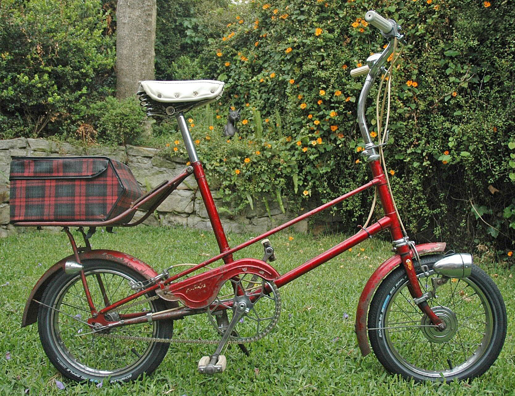 1969 CWS Commuter bicycle CWS made this as their contribution to the boom in small wheeled bicycles. They adopted the balloon tyre approach that Raleigh did with the Raleigh RSW 16. The CWS differs in having a lugged mixte frame. This is a later example with caliper brakes and RSW-style combined stem and handlebars. Earlier ones had stirrup brakes actuated by cables